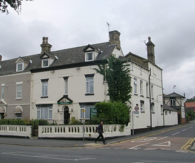 The Hollies Guest House - Carholme Road. Built by the architect Pearson Bellamy in 1875, possibly for his own occupation.